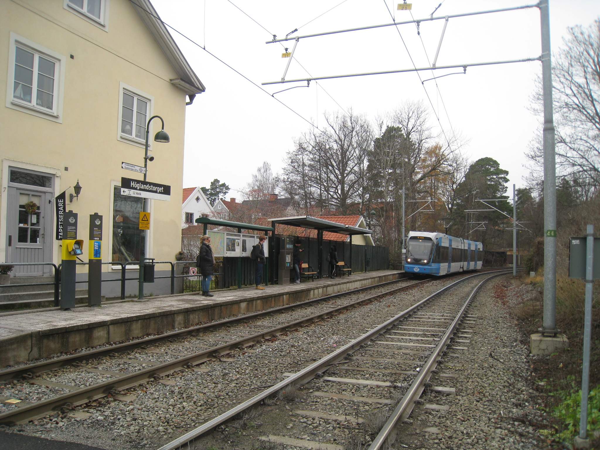 Höglandstorget (Nockebybanan), spårvagnshållplats, Bromma.